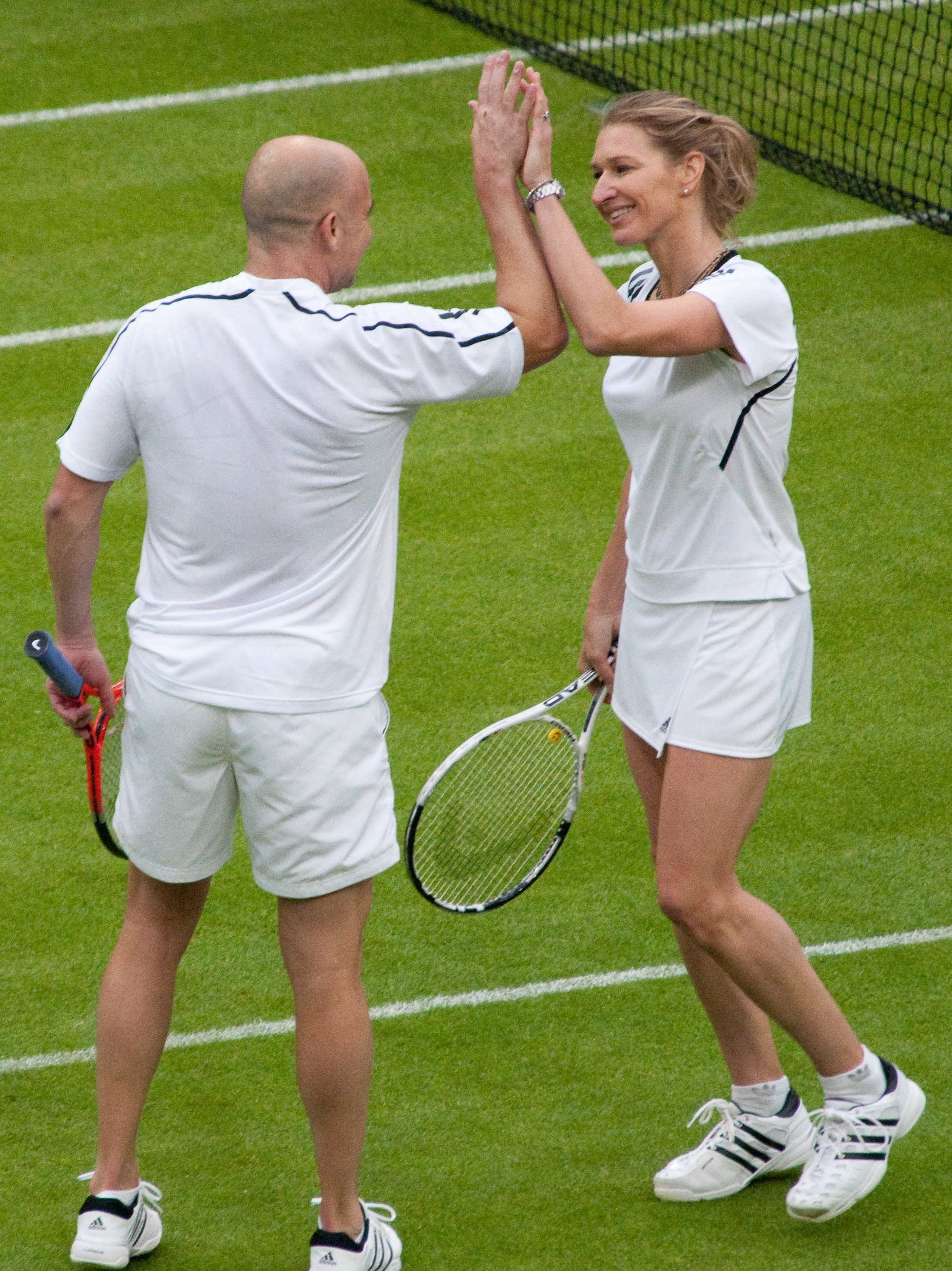 Steffi Graf and Andre Agassi during the special event “A Centre Court Celebration” (event was designed to test a new roof and air management system with live tennis in front of a capacity crowd of 15,000 – Andre Agassi and Steffi Graf played vs. Tim Henman and Kim Clijsters)